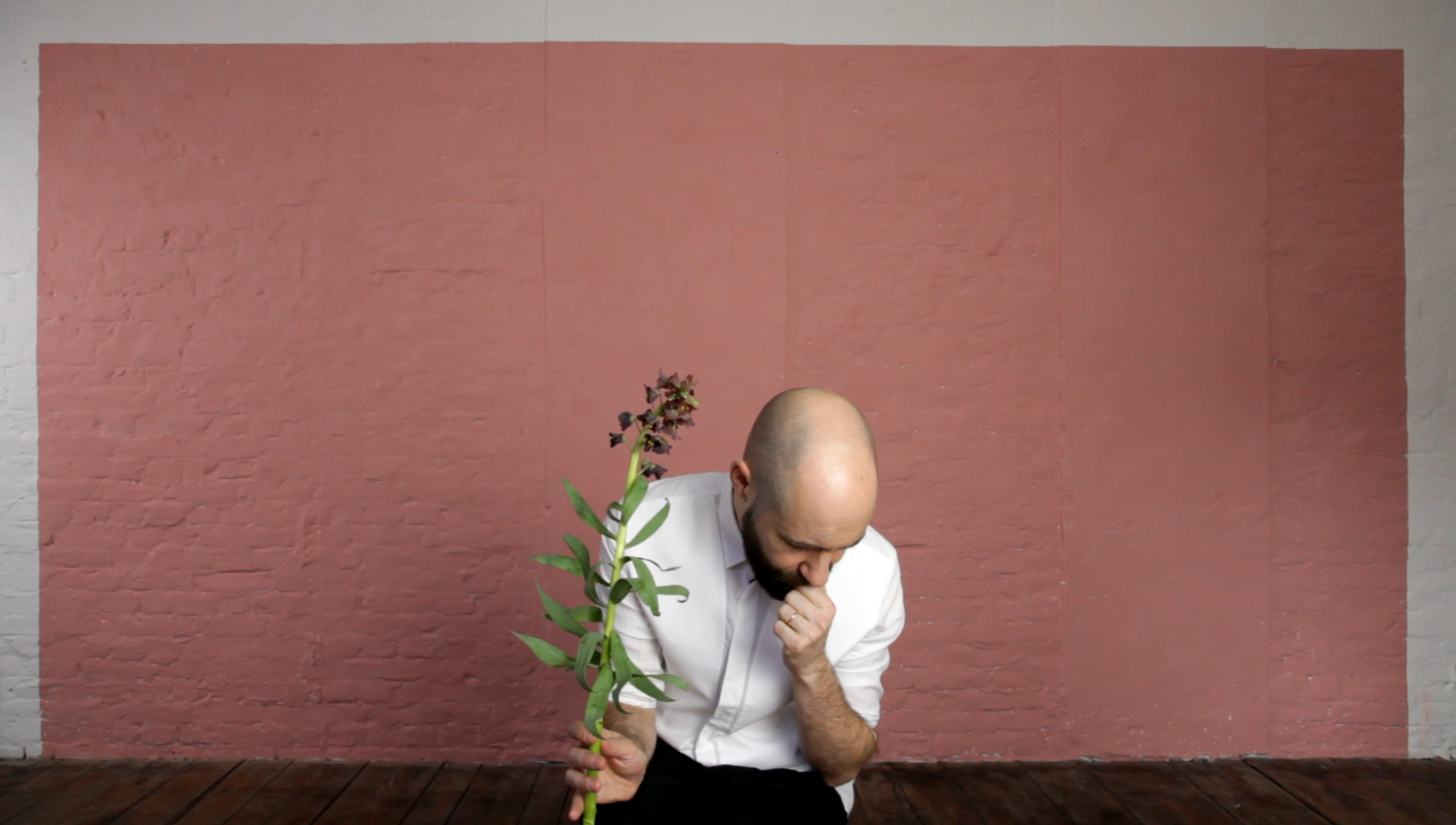 Benny Nemerofsky Ramsay, Berlin 2016